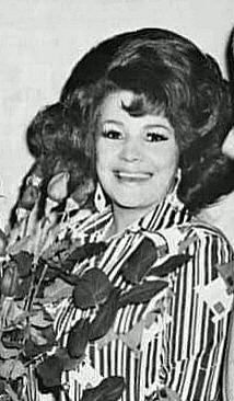 American burlesque entertainer Blaze Starr (April 10, 1932 – June 15, 2015) in 1974, at a book signing appearance at Hutzler's Department Store, Towson, Maryland